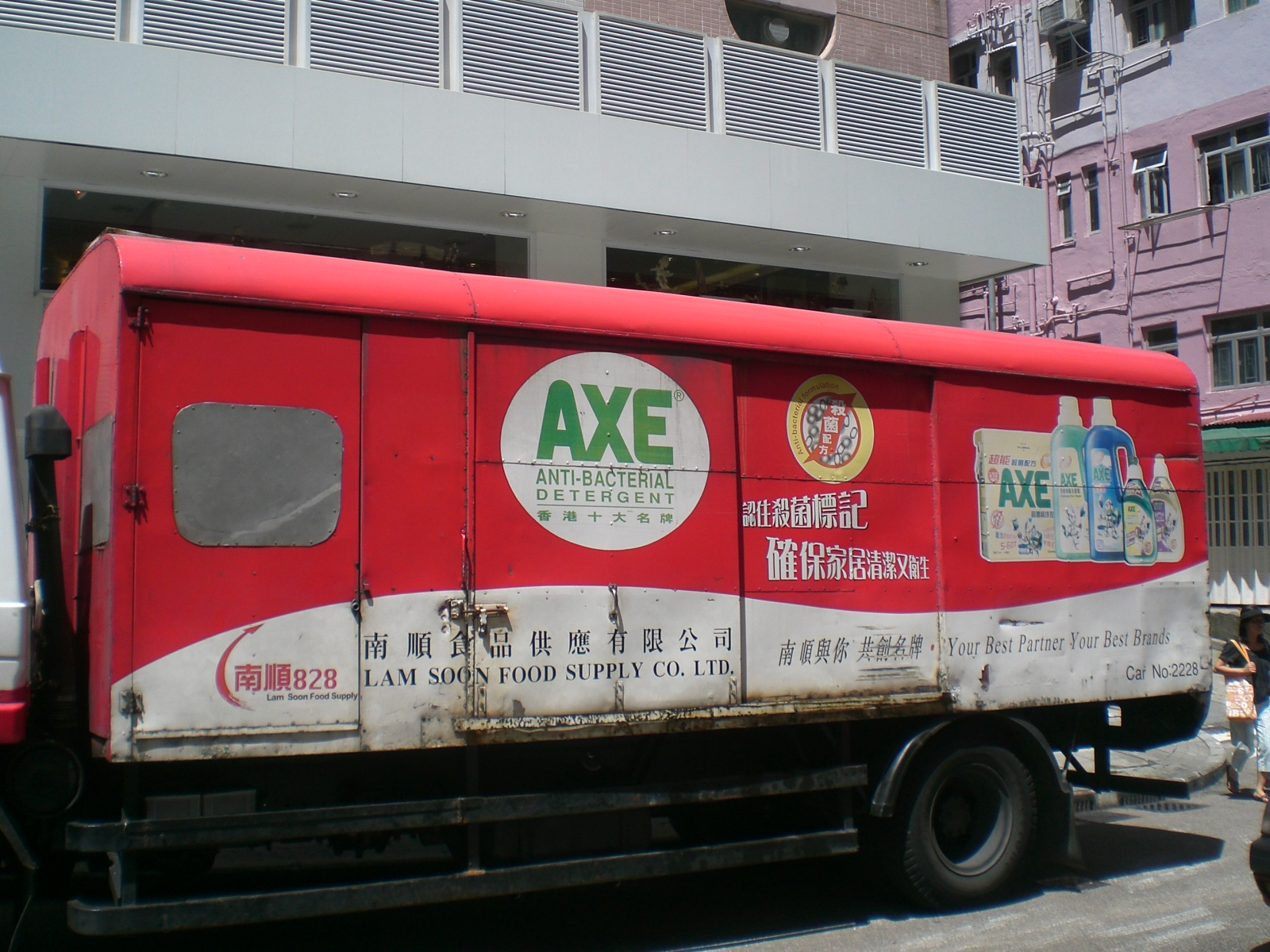 南順集團 Author= SWCWB101